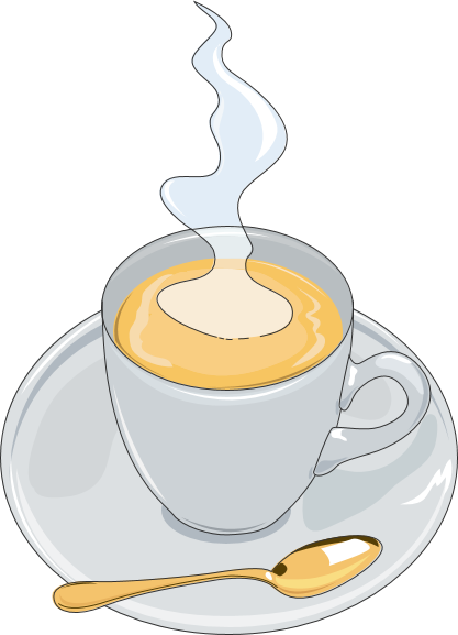 Clip art showing coffee in a cup